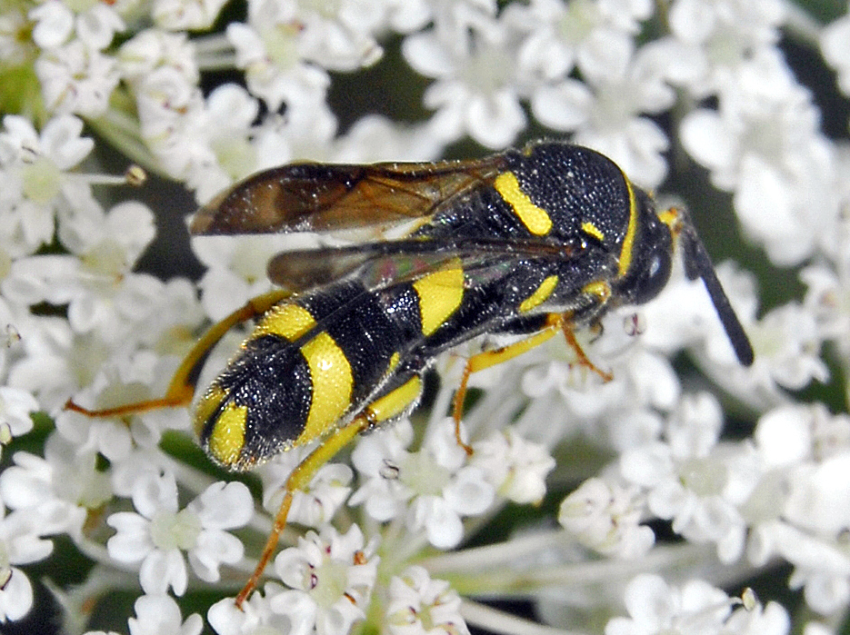 Leucospis cf. dorsigera, Female. Val Veny, Aosta, Italy